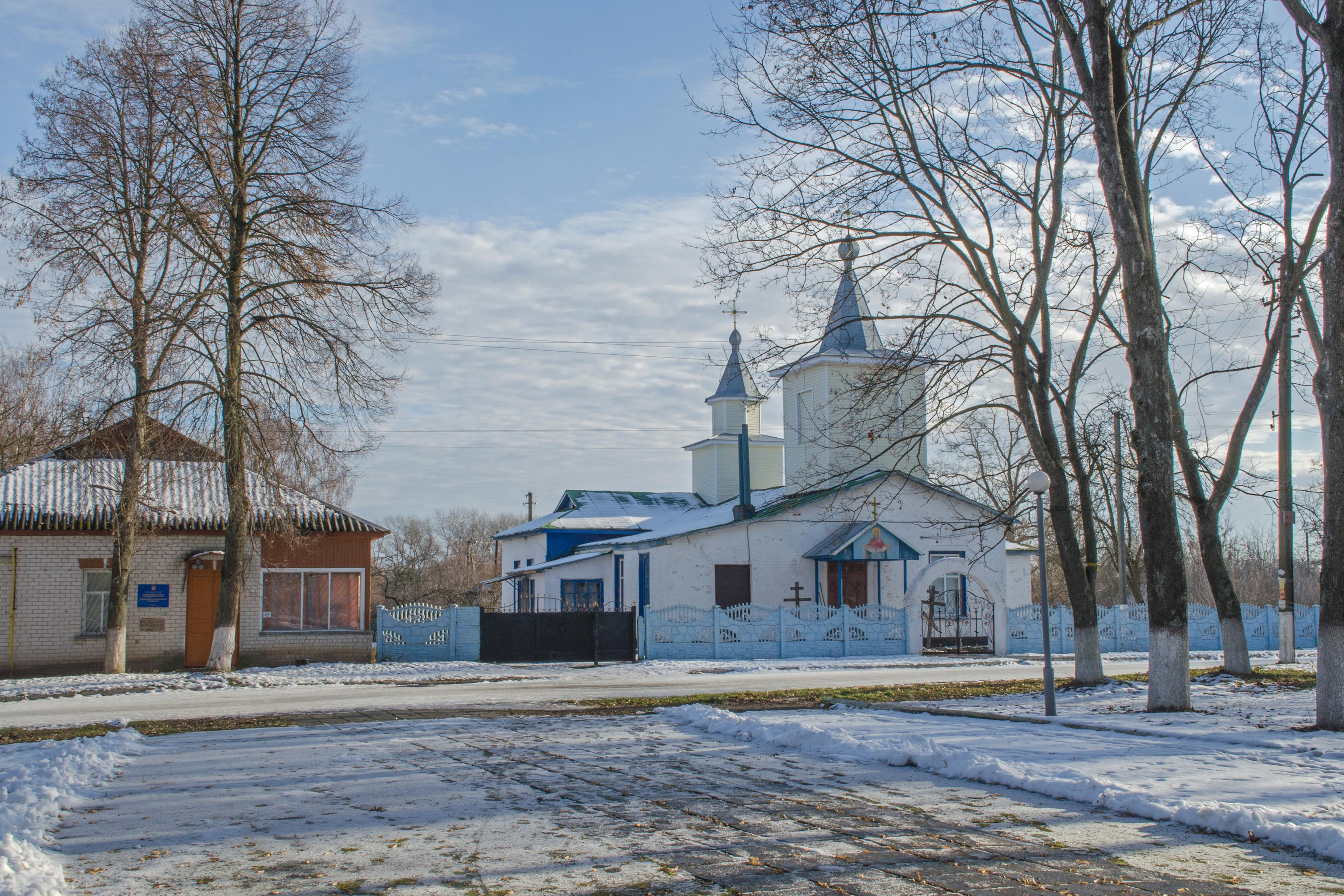 Mykhailo-Kotsiubynske, Chernihiv Raion, Chernihiv Oblast, Ukraine Цю фотографію було зроблено в рамках Вікіекспедиції Чернігів — Михайло-Коцюбинське — Чернігів.